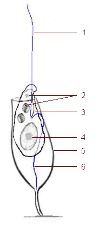 Simplified Bicosoeca cell: 1. anterior flagellum, 2. phagosomes, 3. cytostome, 4. nucleus, 5. lorica, 6. posterior flagellum